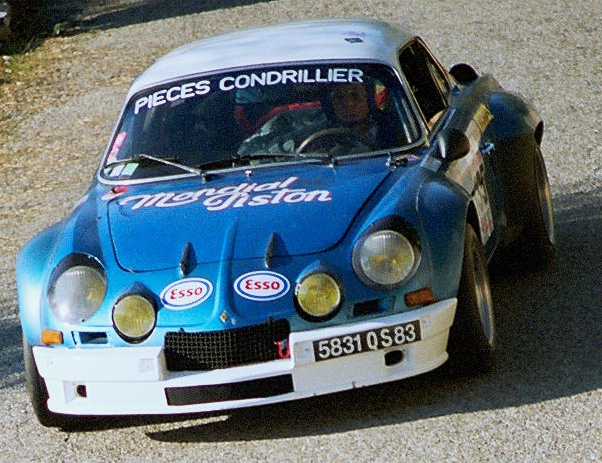 The Alpine A110 1800 Group 4 of Jean Ortelli, driven by Jean Ortelli - Côte historique de St Cézaire 2006. Notice that this car is exactly in the same configuration and paint scheme that when it raced with the same driver in Hillclimb in the seventies.